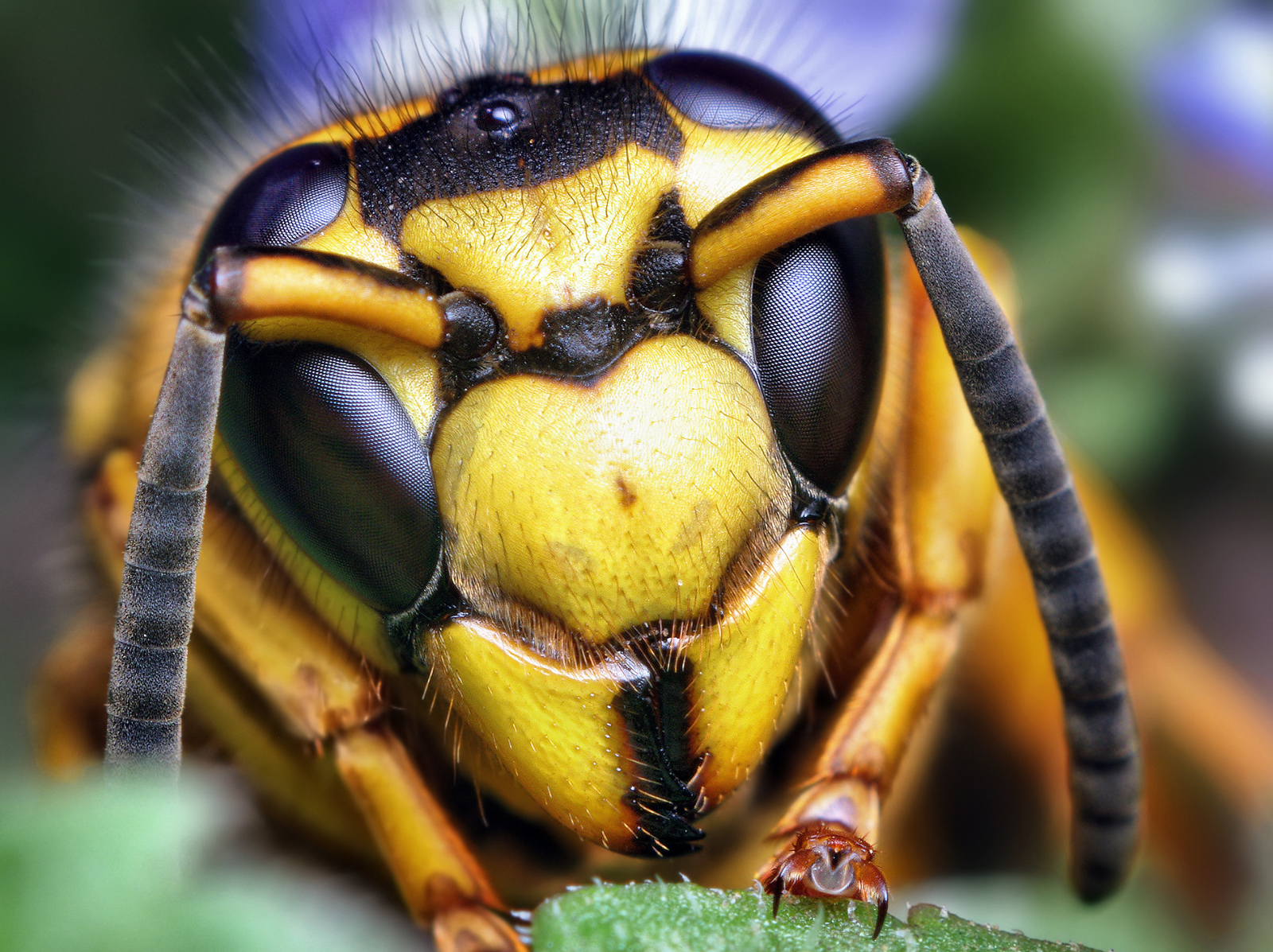 This past Friday, I went to a public lecture by evolutionary biologist Richard Dawkins and was surprised to see that he used this image in his presentation. I remembered seeing the image on flickr a few times, and thought to myself that it would be great if had used some of my images I have posted, but obviously my images are not as well known. Some salticid images probably would have been a well recieved addition... This morning I set out to look for jumping spiders as I often do, and decided to flip over a wooden platform were I know a Phidippus audax lives ( Click here to watch a video of this spider eating a harvestman ) and was surprised to find this female yellowjacket hanging out in the shade beneath the platform. She may have just come out of hibernation, so she didn't seem to keen on flying away, but kind of waddled around a bit slowly, giving me a chance to get a few photos. The above image is a crop from an image taken with the 50mm reversed to a few extension tubes. Make sure to view it in the largest size to appreciate all the fine detail! Quite a beautiful wasp, hopefully I can find a male someday.